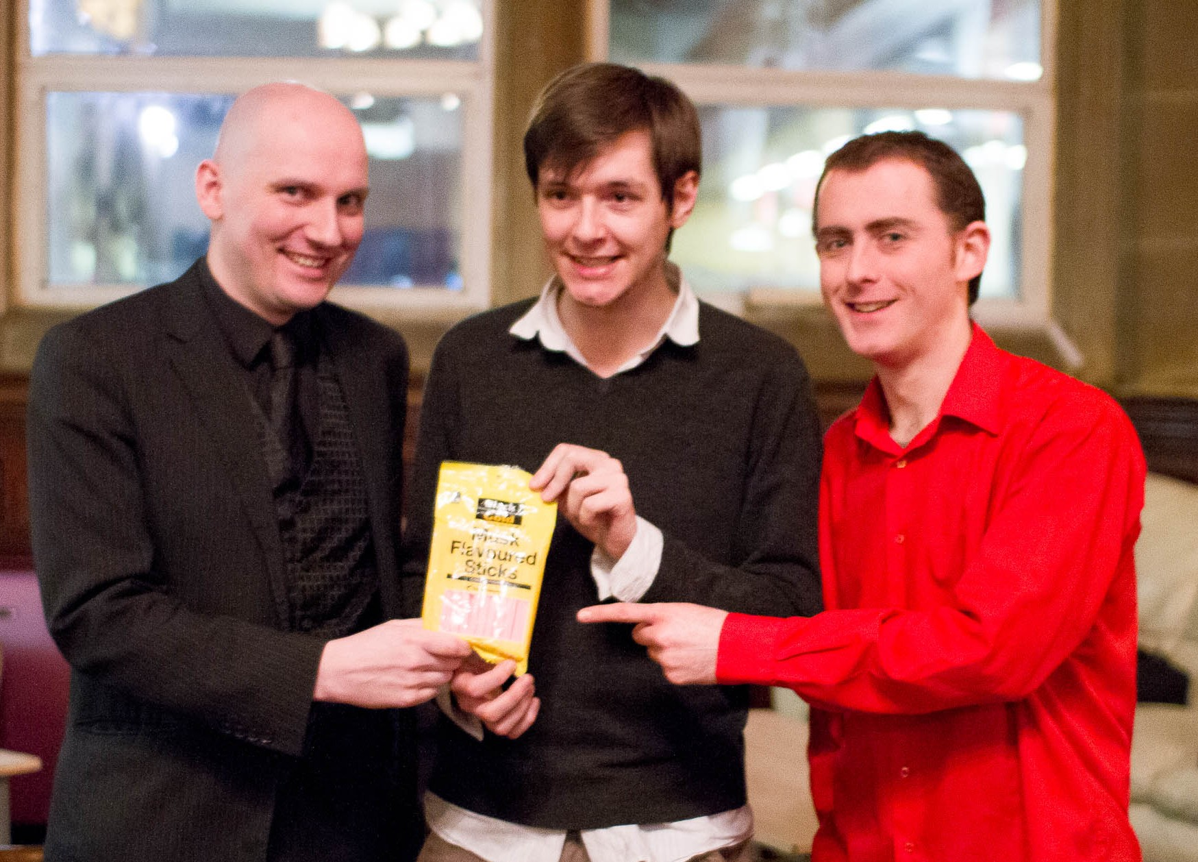 Mike Hall, Michael Marshall and Colin Harris. Presenters of the "Skeptics with a K" podcast. Pictured at a Skeptics in the pub event in Liverpool.